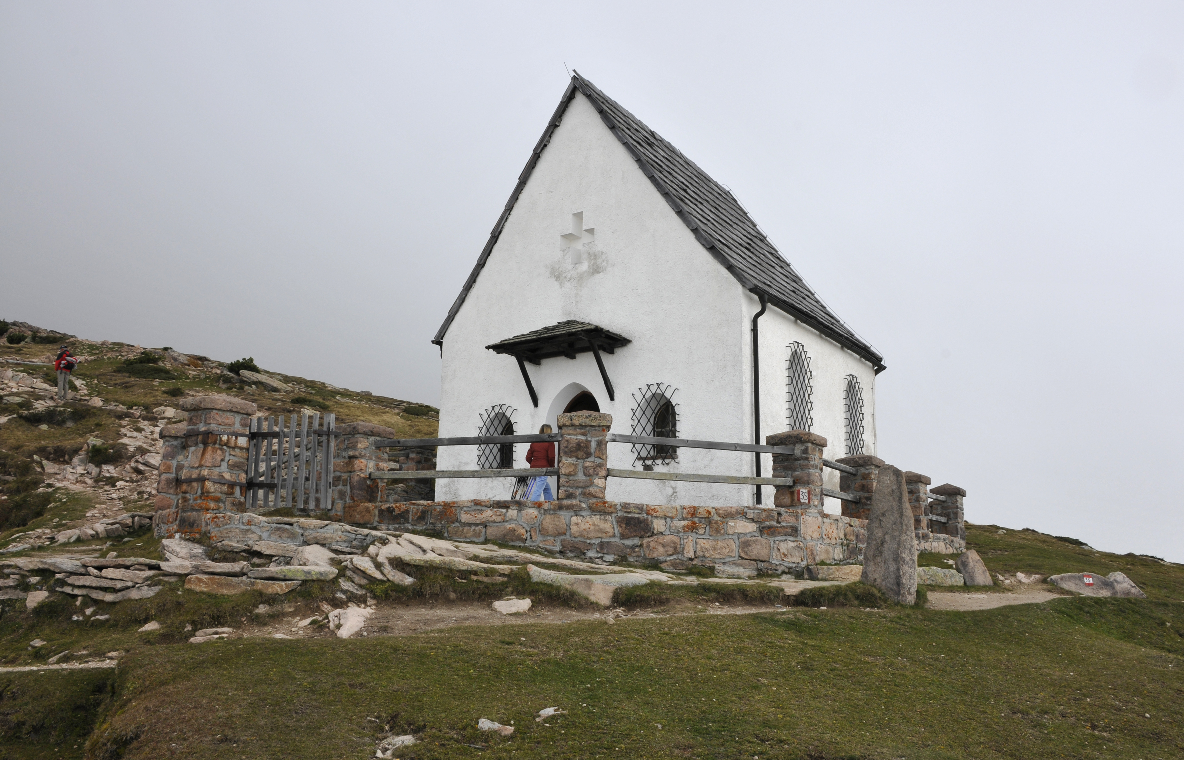 Chapel on Resciesa in Gröden